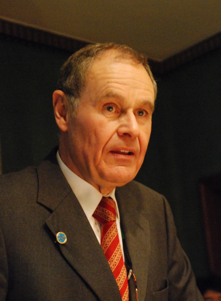 Michael Sohlman, Executive Director of the Nobel foundation, during a Press conference